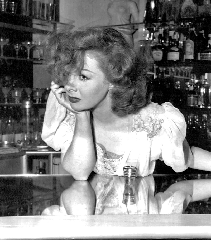 Publicity photo of Susan Hayward